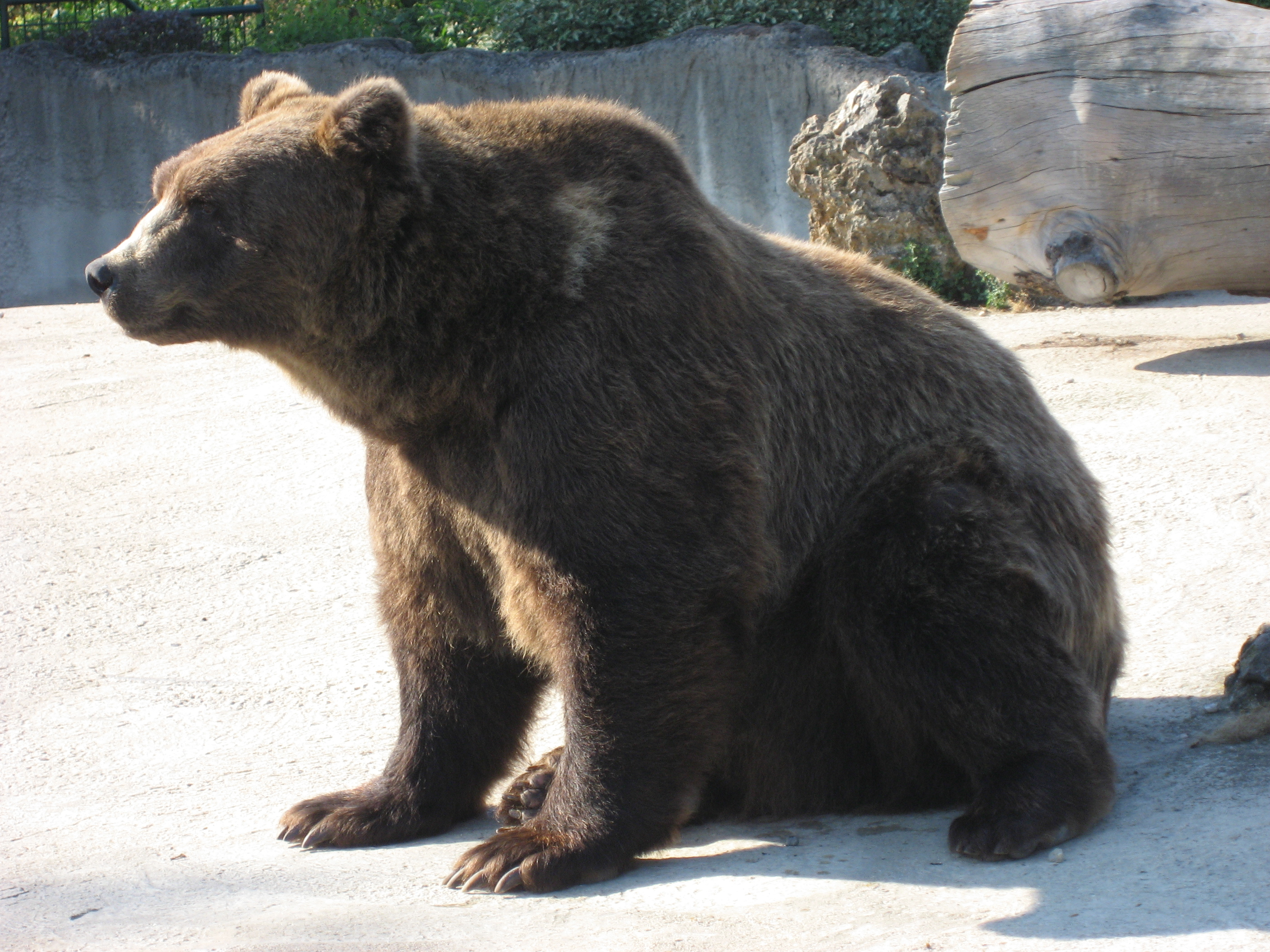 Ursus arctos in Jardin d’Acclimatation Map: 48° 52' 45" N 2° 15' 46" E